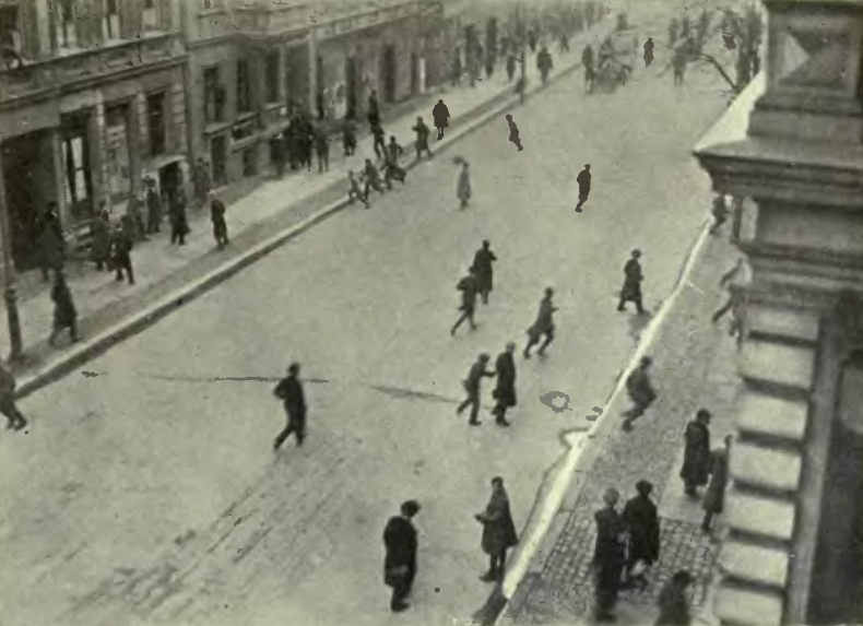 Shooting in Berlin during the "Spartacist uprising".